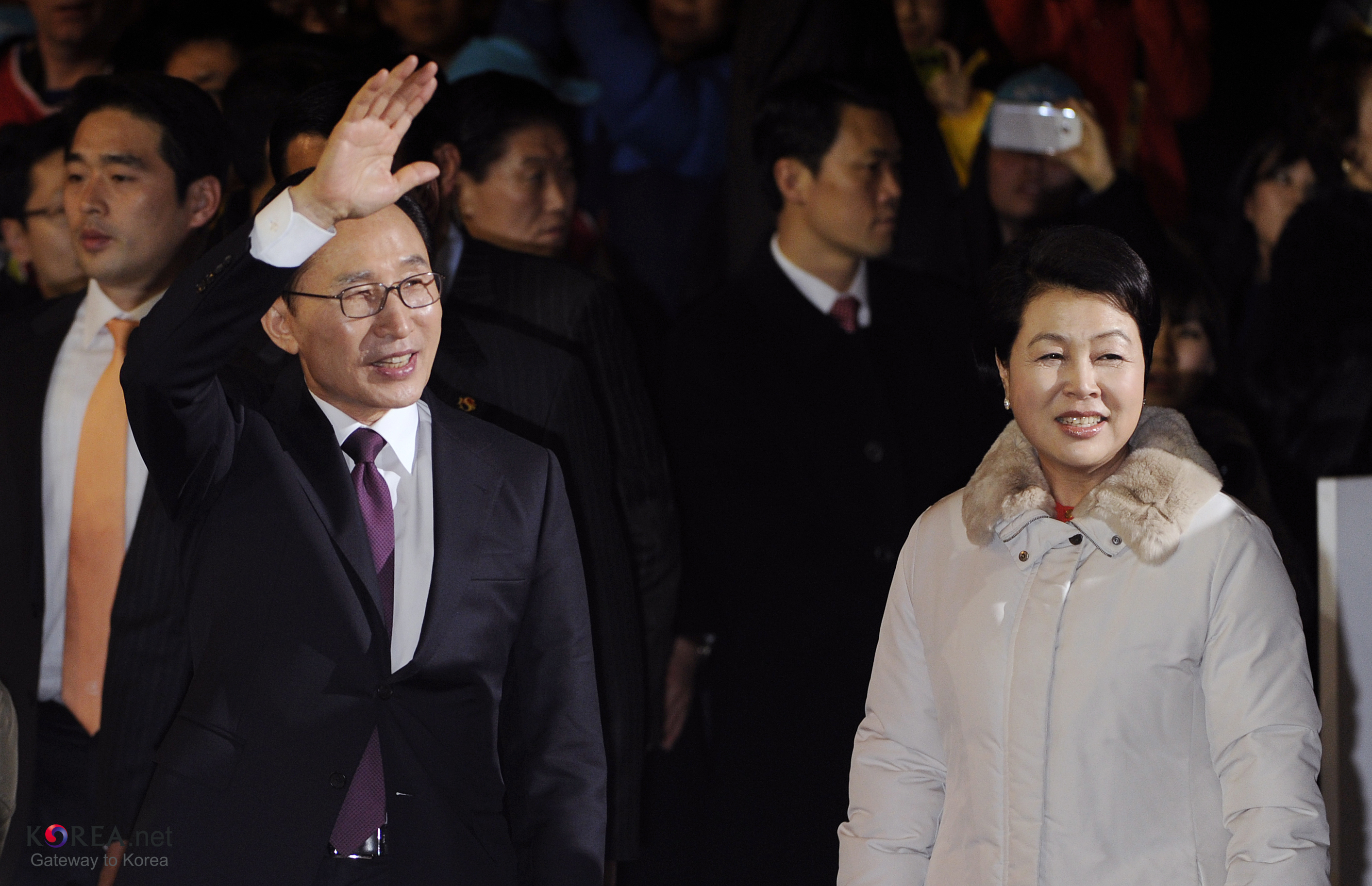 2013 PyeongChang The Special Olympics World Winter Games Openning Ceremoney President Lee Myung-bak PyeongChang Dome, PyeongChang, Gangwon-Do 2013.01.29. Ministry of Culture, Sports and Tourism Korean Culture and Information Service Jeon Han 2013 평창 동계 스페셜올림픽 세계대회 개막식 용평돔에 입장하며 관객들에게 인사하는 이명박 대통령 용평돔, 평창, 강원도 문화체육관광부 해외문화홍보원 코리아넷 전한